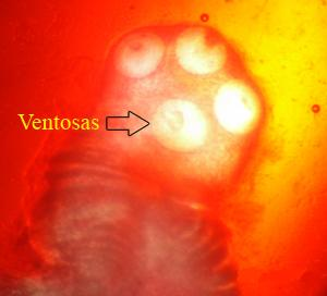 Scolex de Taenia saginata. Cysticercus bovis (fase infestante)